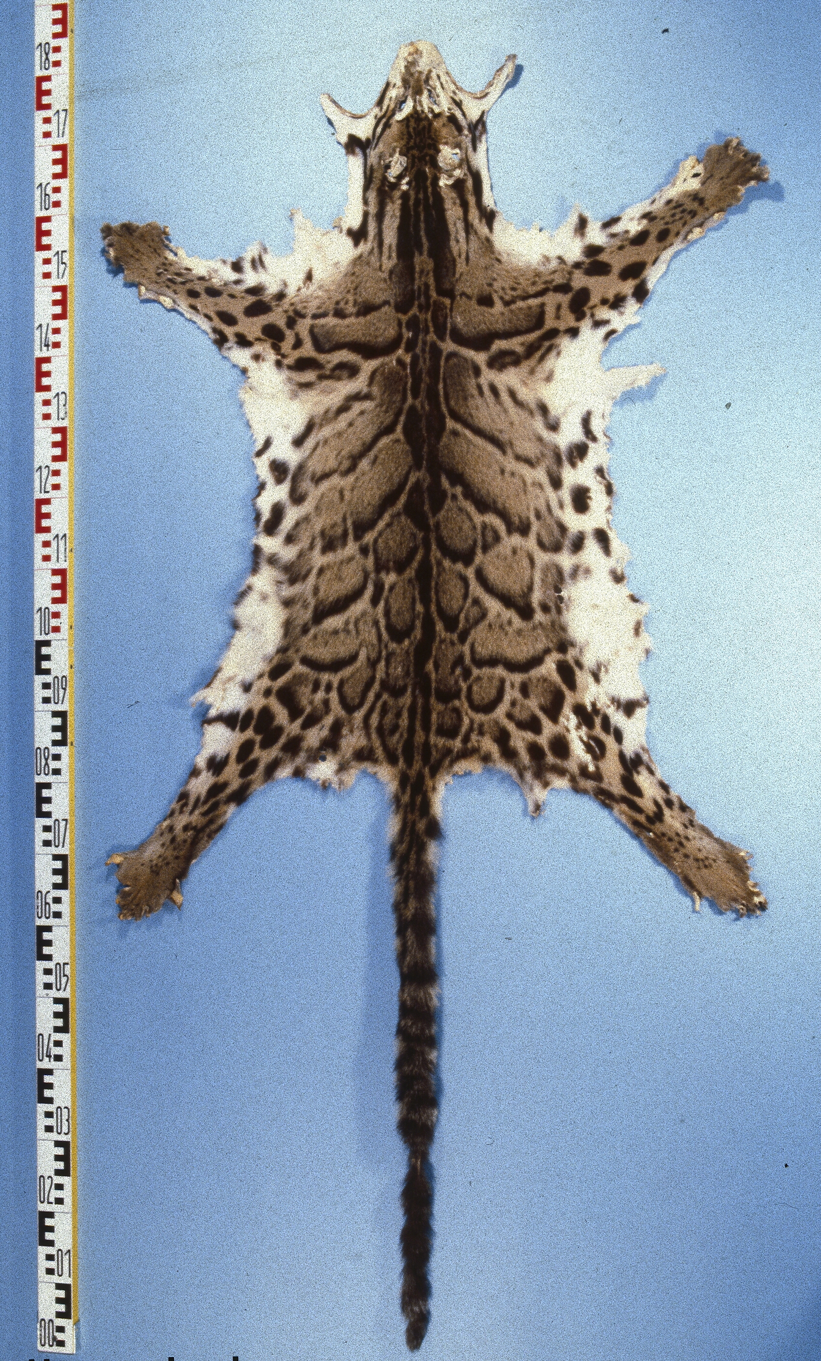 Clouded leopard fur skin (Neofelis nebulosa). Fur skin collection, Bundes-Pelzfachschule, Frankfurt/Main, Germany